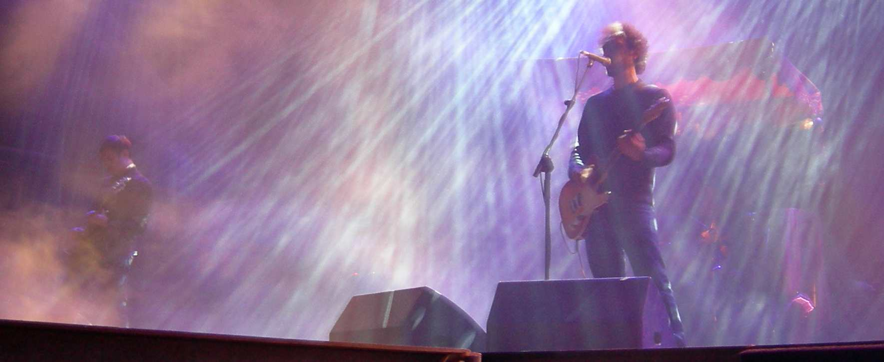 Concert by Los Planetas in Sonorama Festival, 17 August 2007.